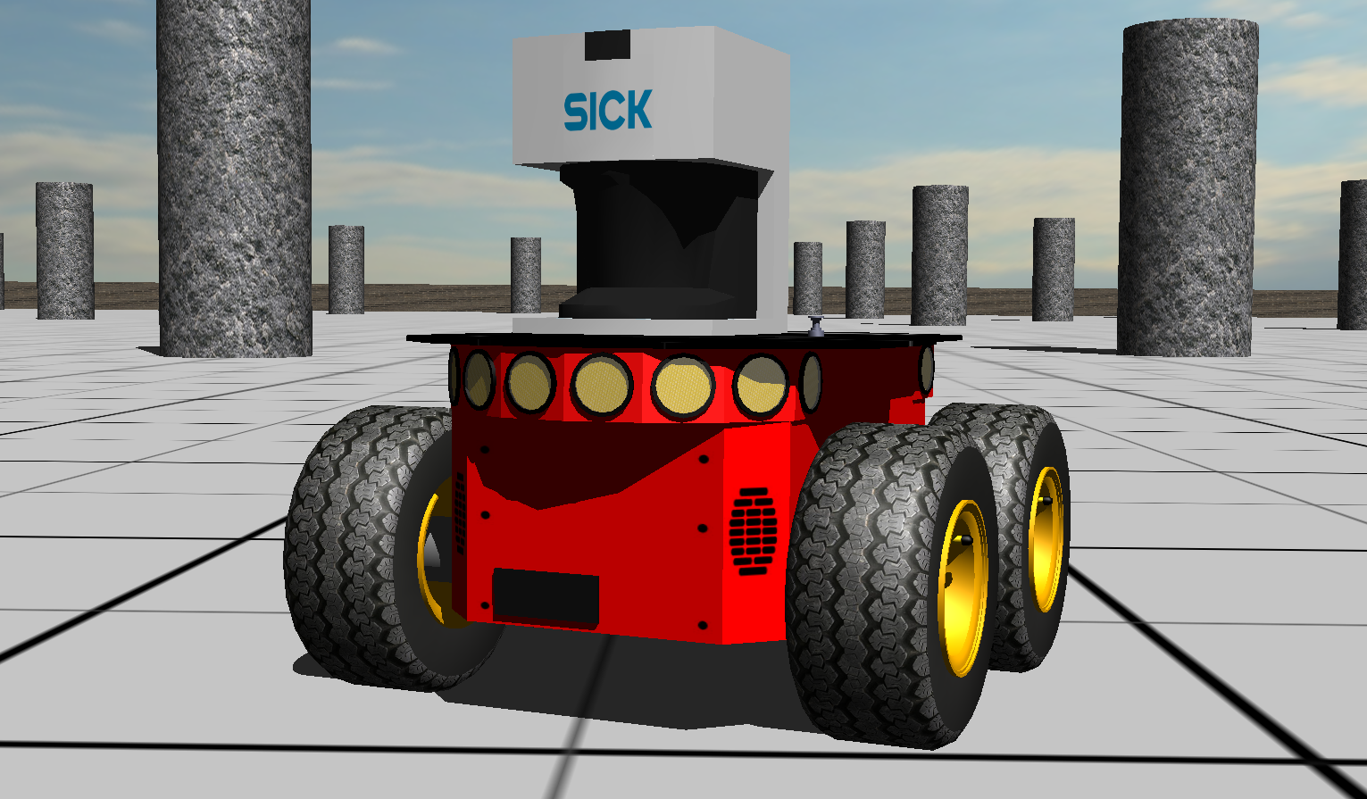 Pioneer 3-AT robot of Adept Mobile Robots simulated in Webots